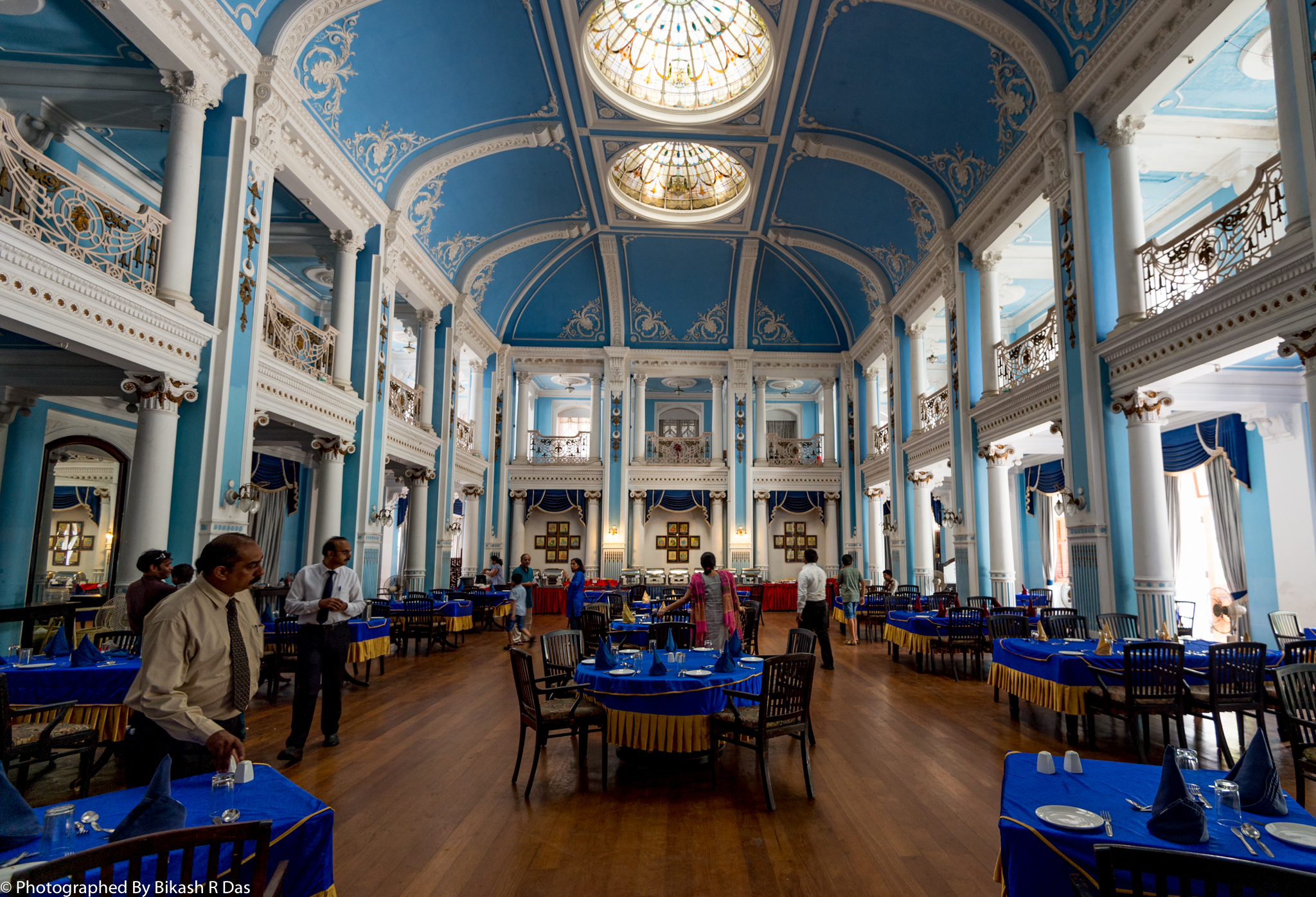 The ball room in particular, which has been converted into the Dining Hall of the hotel, is a baroque hall with immensely high ceiling with domed skylights made of Belgian glass. Adding the gorgeous turquoise to the roof , makes the view majestic .The buffet spread was equally matching to the rooms' opulence and as tradition had the violinist rendering some soulful Carnatic and western classical notes. The butlers were extremely courteous and humble. A commoner to enjoy this was a beautiful experience.